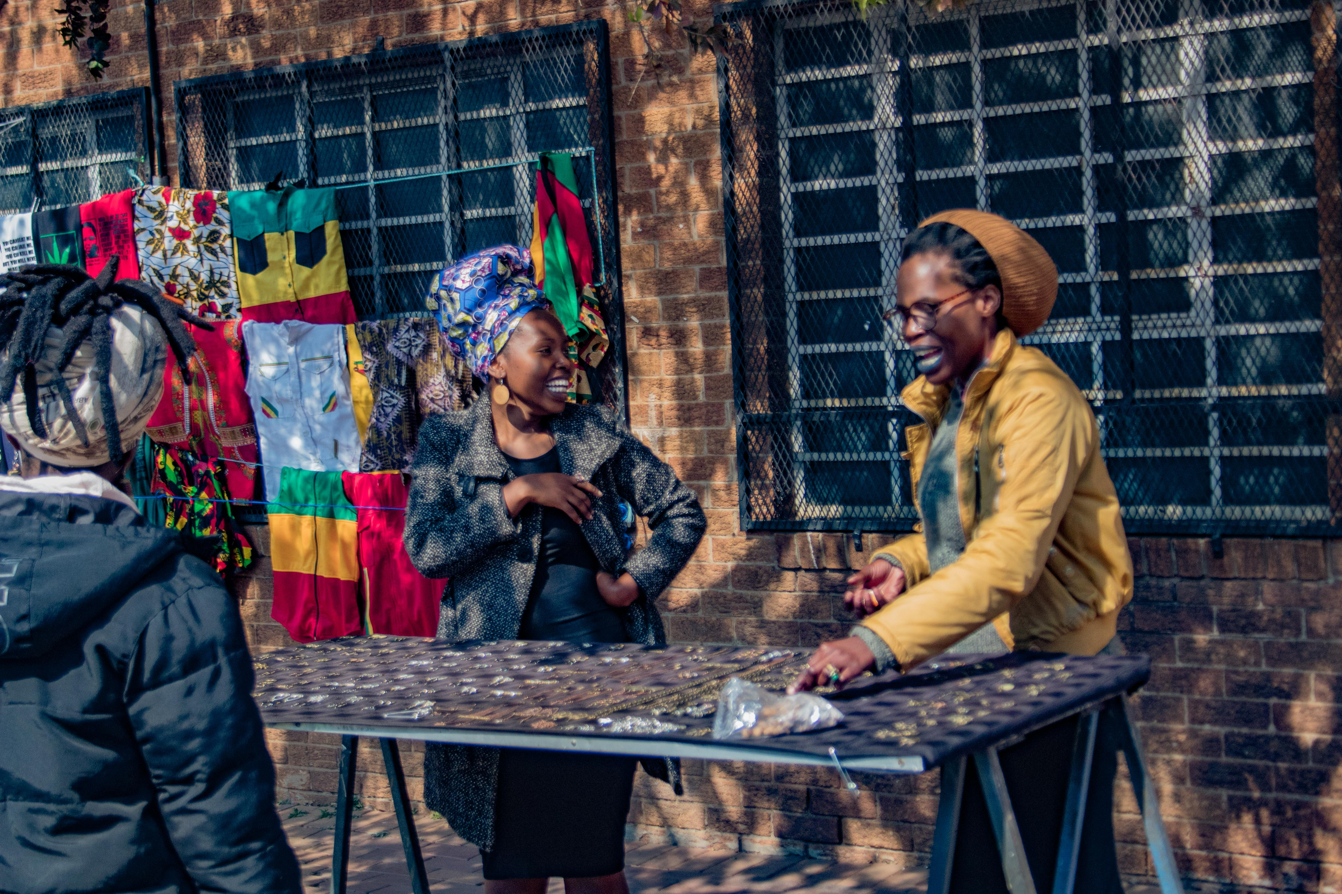 Street photography of afrcan people at work together and happy This is an image with the theme "Africa on the Move or Transport" from: South Africa